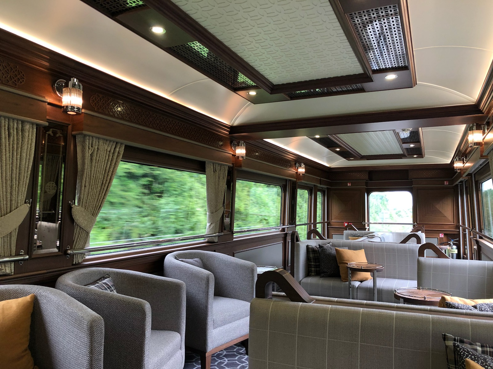 A photo taken with an iPhone of the lounge car in the Belmond Grand Hibernian interior. Taken in June 2018.